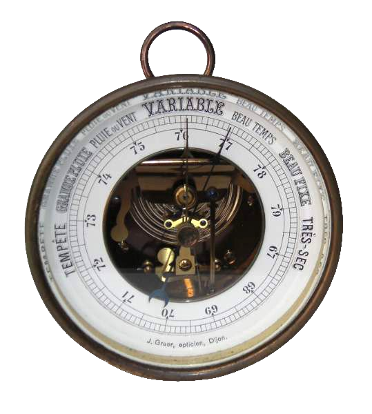 A barometer is a scientific instrument used in meteorology to measure atmospheric pressure.